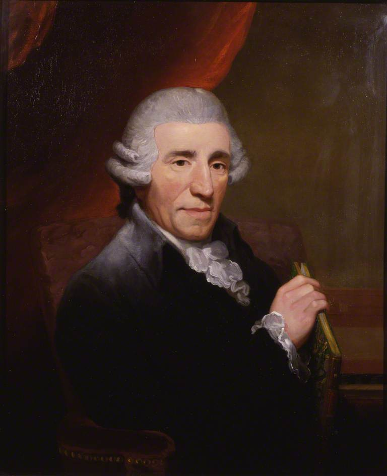 Depicted person: Joseph Hadyn